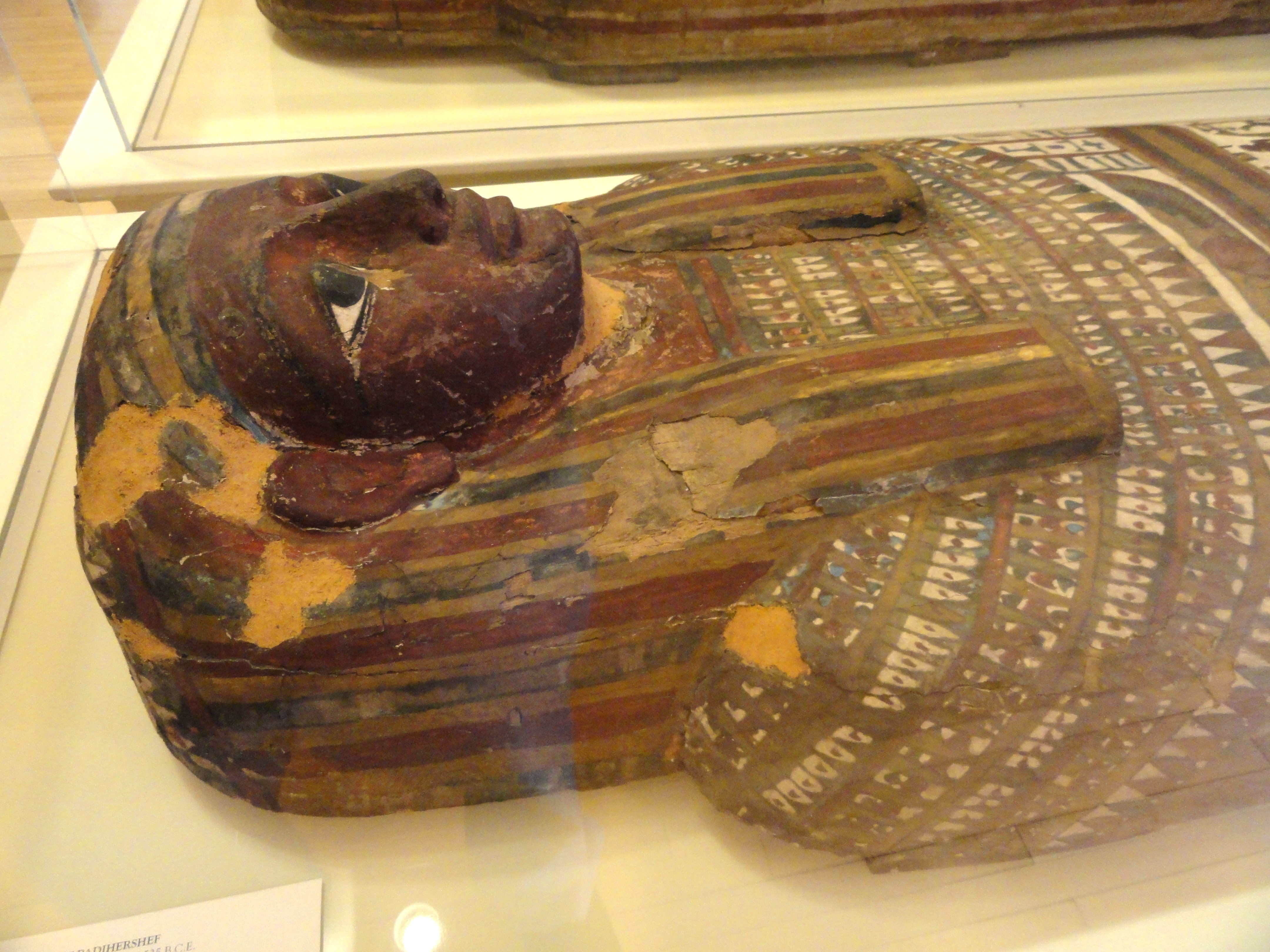 Exhibit in the George Walter Vincent Smith Art Museum, 21 Edwards Street, Springfield, Massachusetts, USA. This item is old enough so that it is in the public domain. The museum permitted photography without restriction.